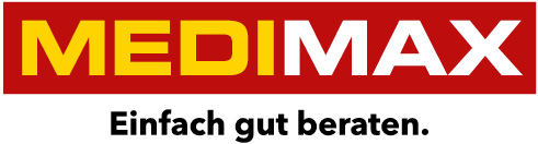 MEDIMAX Logo